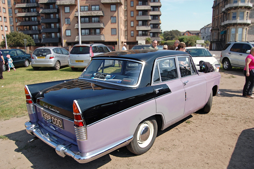 1959 Austin A55 Cambridge Mark II, rear view